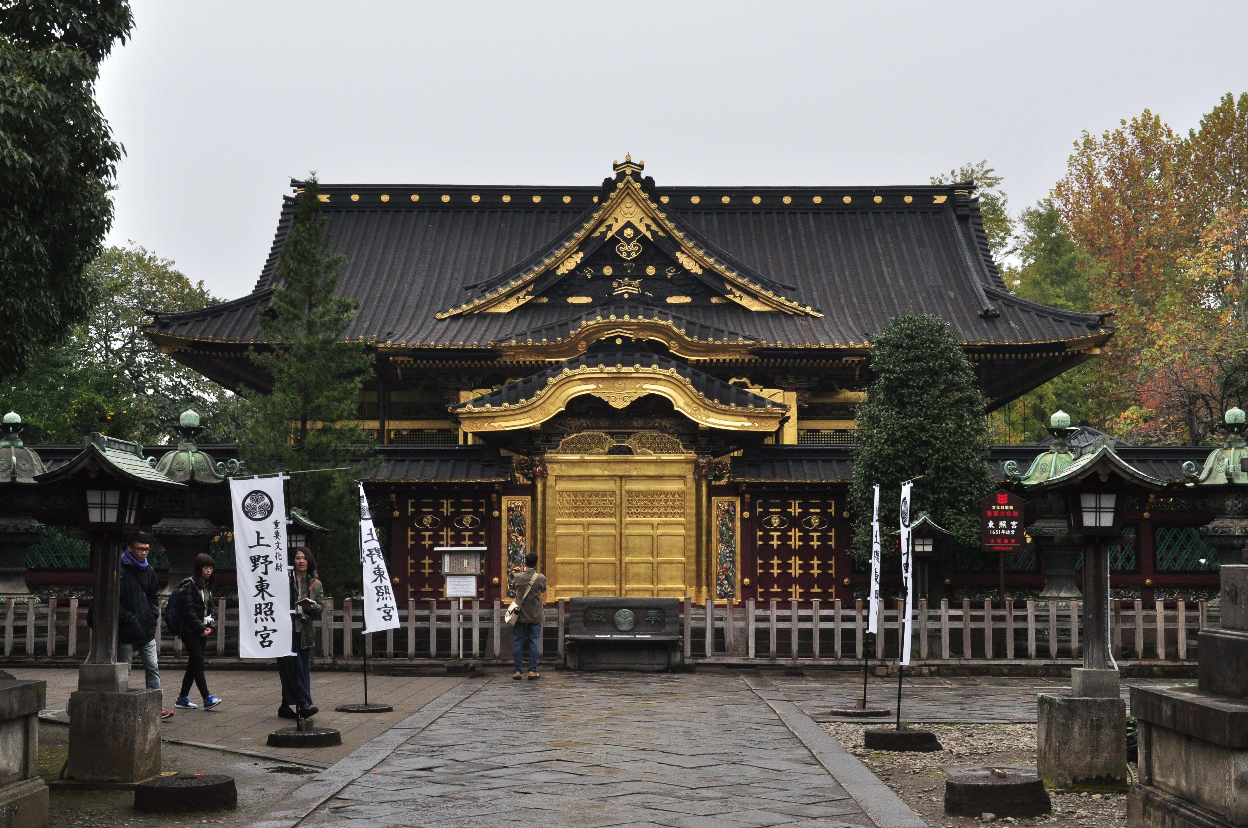 Ueno Tōshō-gū (shrine), Ueno Park, Tokyo, Japan.